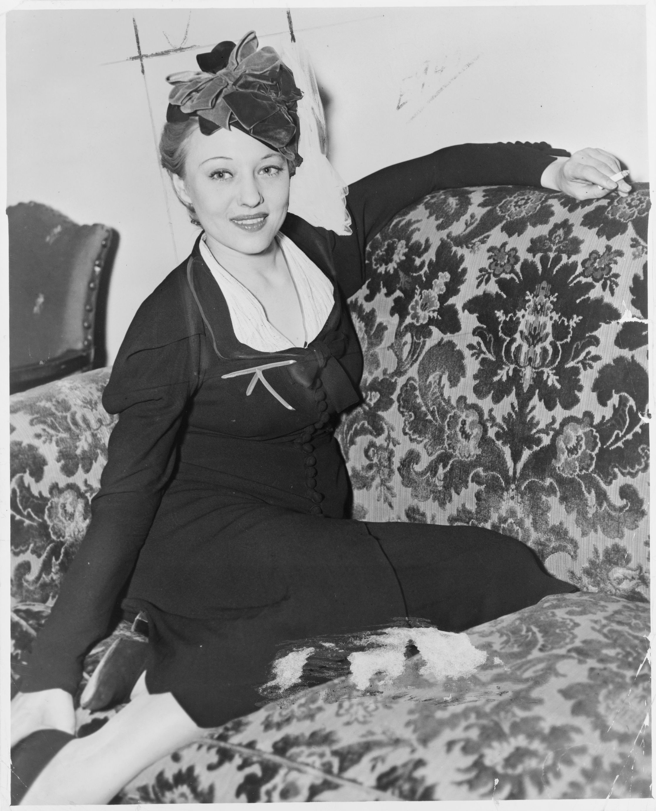 Sally Rand, full-length portrait, seated, facing slightly right. It has markings and manipulations to allow a tilted rectangular section to be used independently as a head-and-neckline shot.